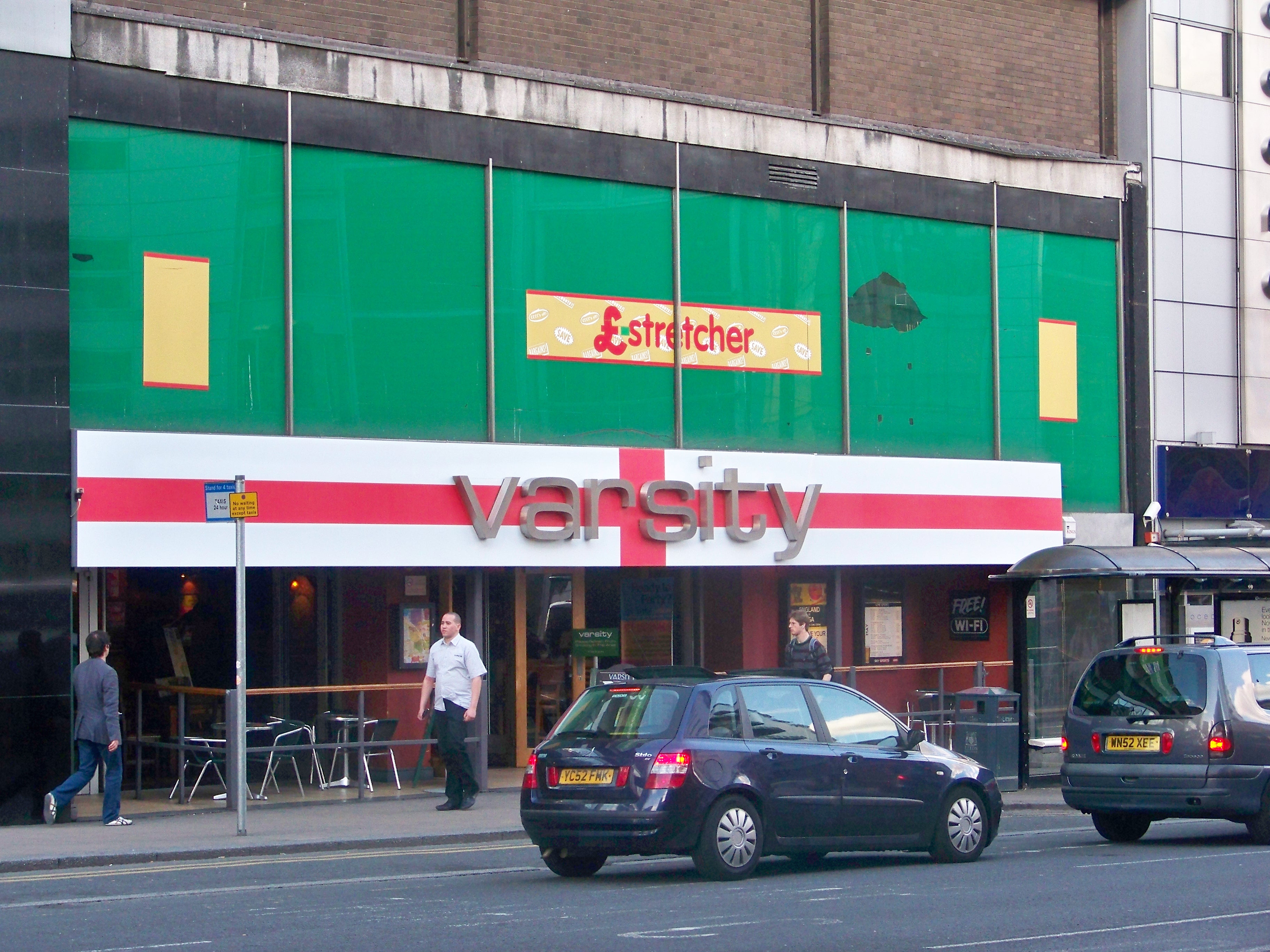 Varsity, Woodhouse Lane, Leeds, West Yorkshire. This was Barracuda, a South African themed bar. The bar is part of the Merrion Centre complex. The St George's Cross was added prior to the 2010 world cup. Taken on the evening of Thursday the 27th of May 2010.